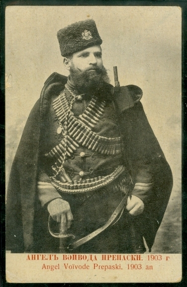 Portrait of IMARO Voivoda of Prespa region Angel Andreev